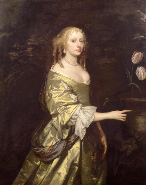 Painting of Lady Elizabeth Wilbraham by Sir Peter Lely. 125.7x99 cm.